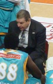 takamatsufivearrows